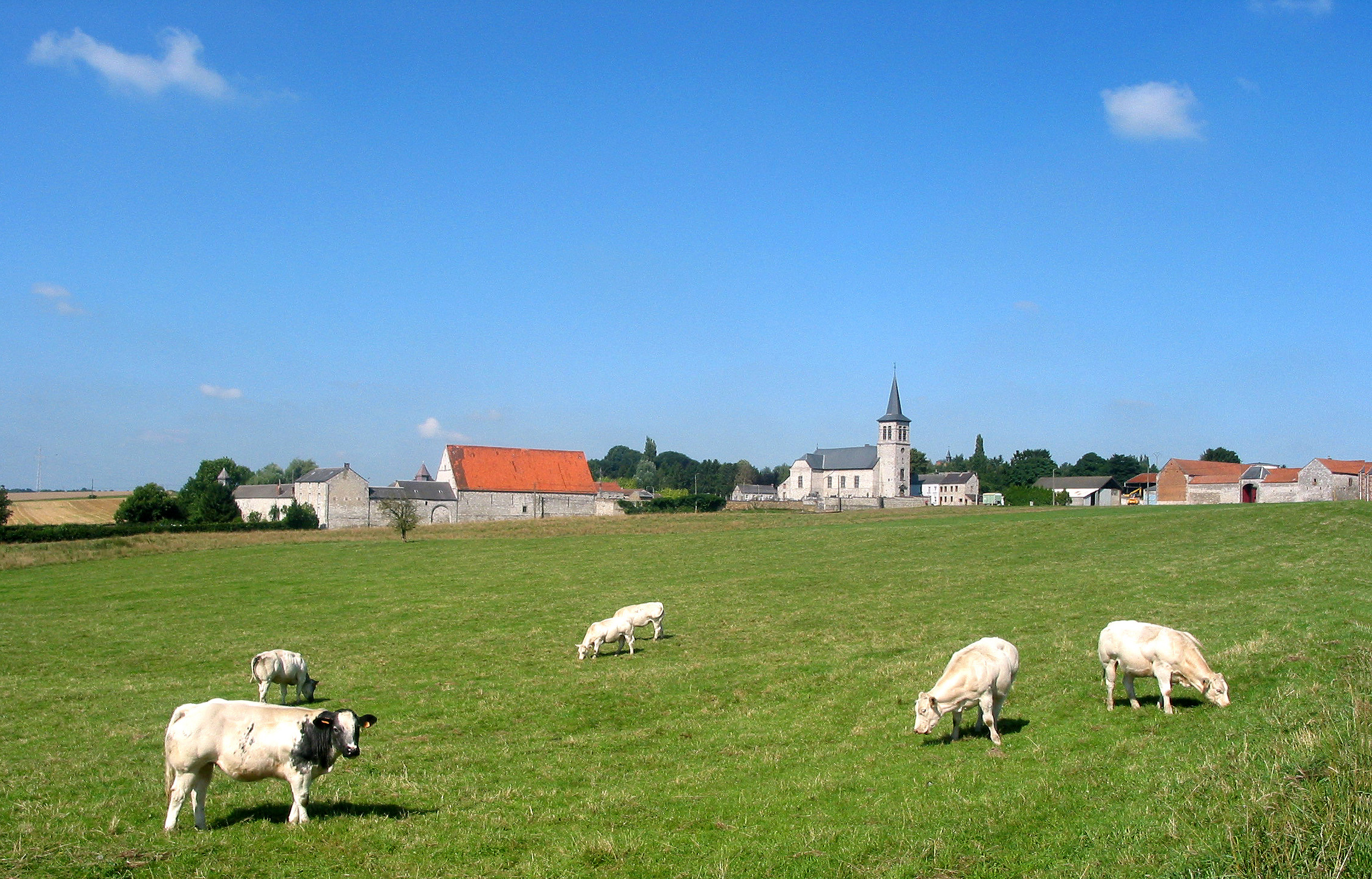 Landenne (Belgium), the village and its old farms.